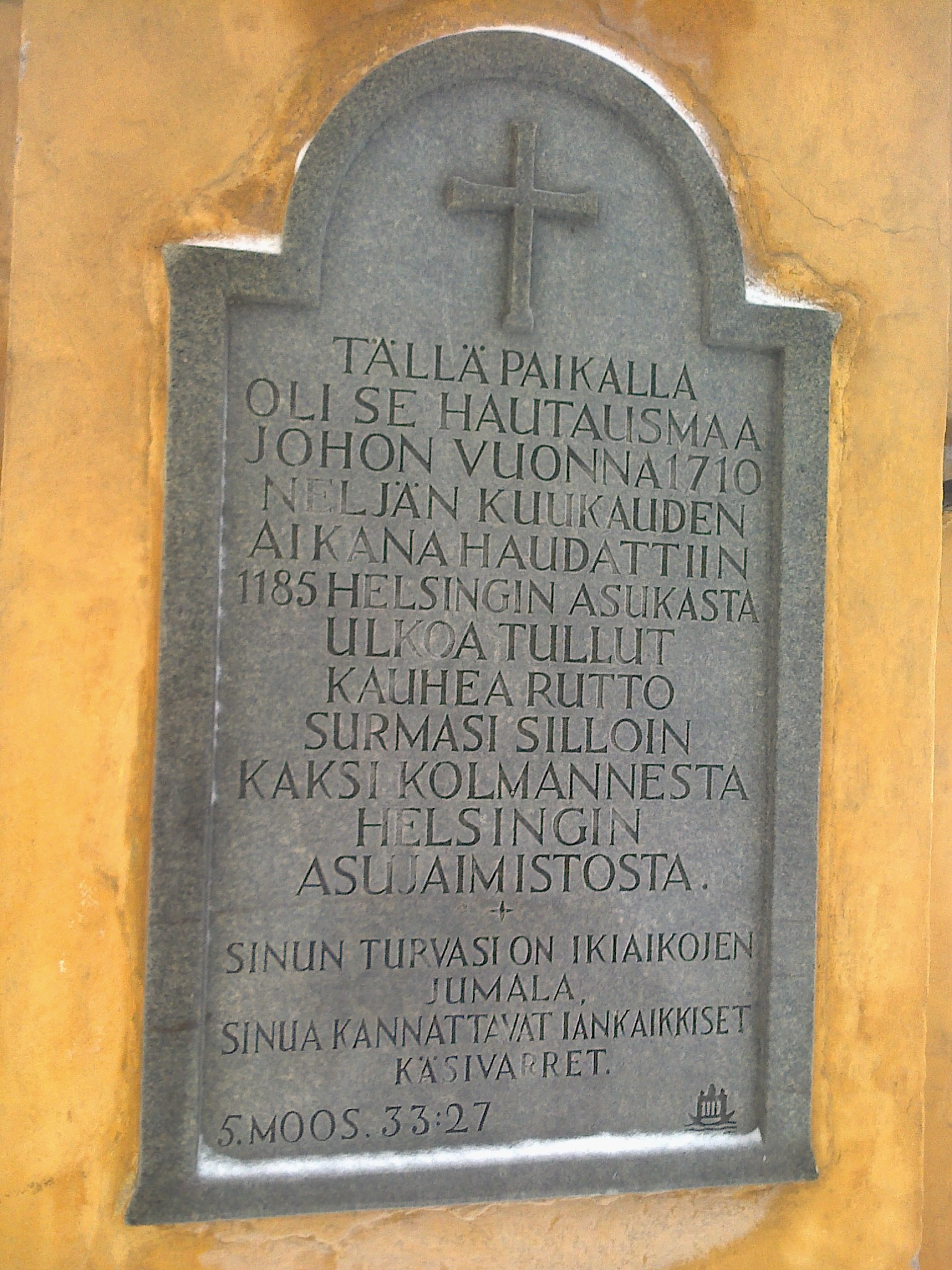 Plague Park memorial plaque in Helsinki. Text: “Here was the burial ground where 1185 Helsinki residents were buried within four months in 1710. During that time, a horrible plague which came from the outside killed two thirds of the population in Helsinki. The eternal God is thy refuge, and underneath are the everlasting arms. Deuteronomy 33:27”